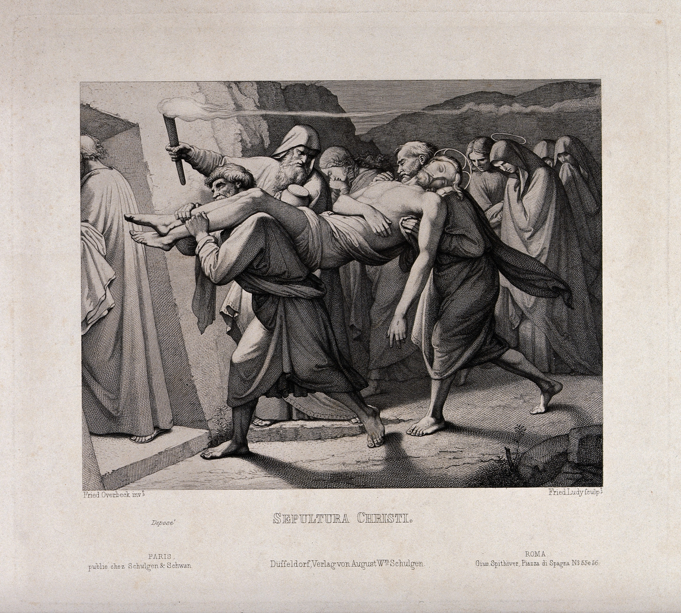 The dead Christ is borne to the tomb. Etching by F.A. Ludy after J.F. Overbeck, 1844. Iconographic Collections Keywords: Friedrich August Ludy; Jesus Christ; Johann Friedrich Overbeck; Joseph; Nicodemus